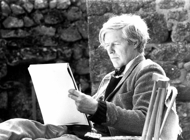 Nick Schlee, from family archive via Jemima Schlee.